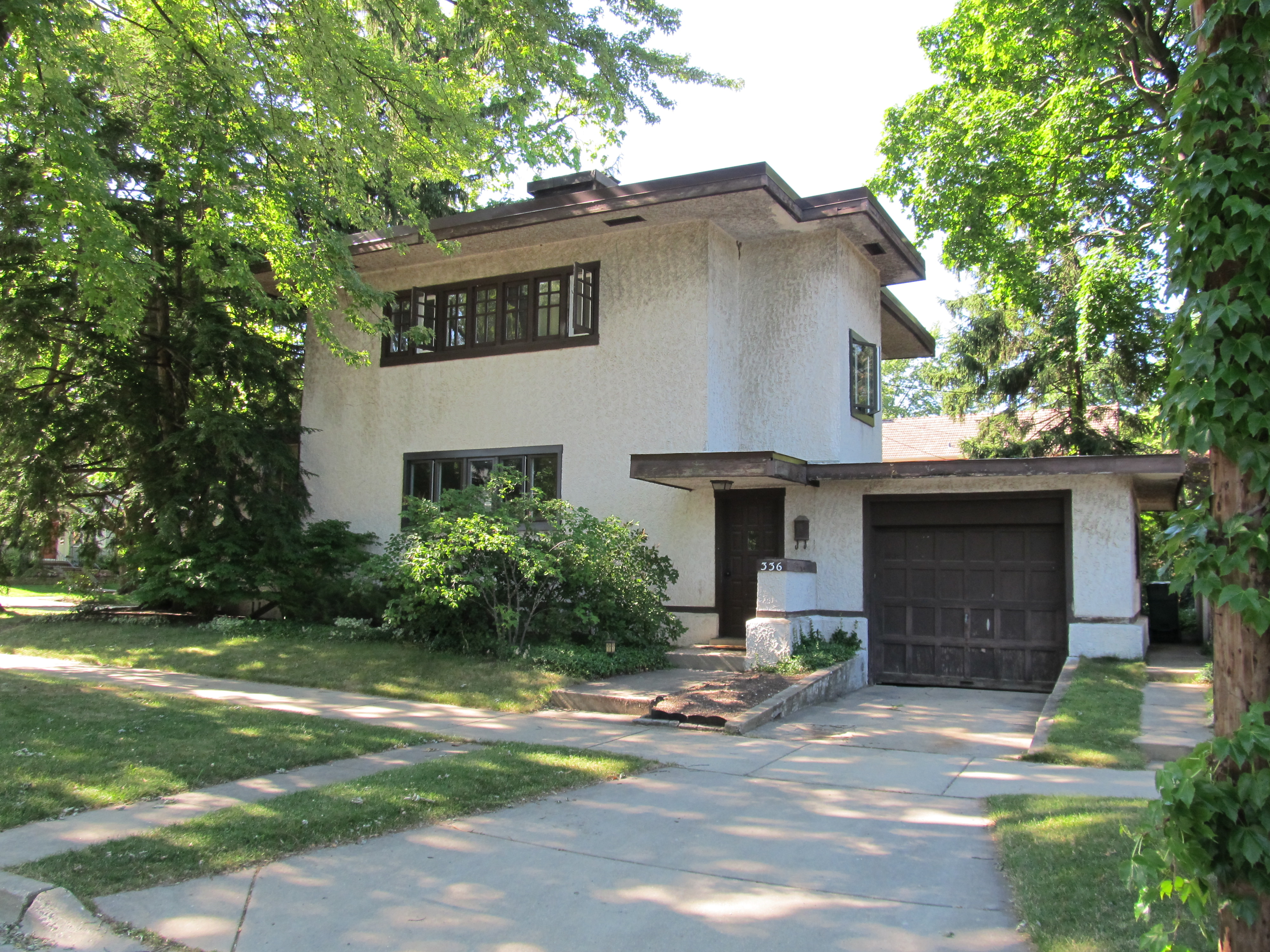 Thomas E. Sullivan House (1916), one of the American System-Built Homes 336 Gregory Ave. Wilmette, IL 60091 Architect: Frank Lloyd Wright Two story addition to the north of the original house (visible over the garage in this image) was designed by John S. Van Bergen.